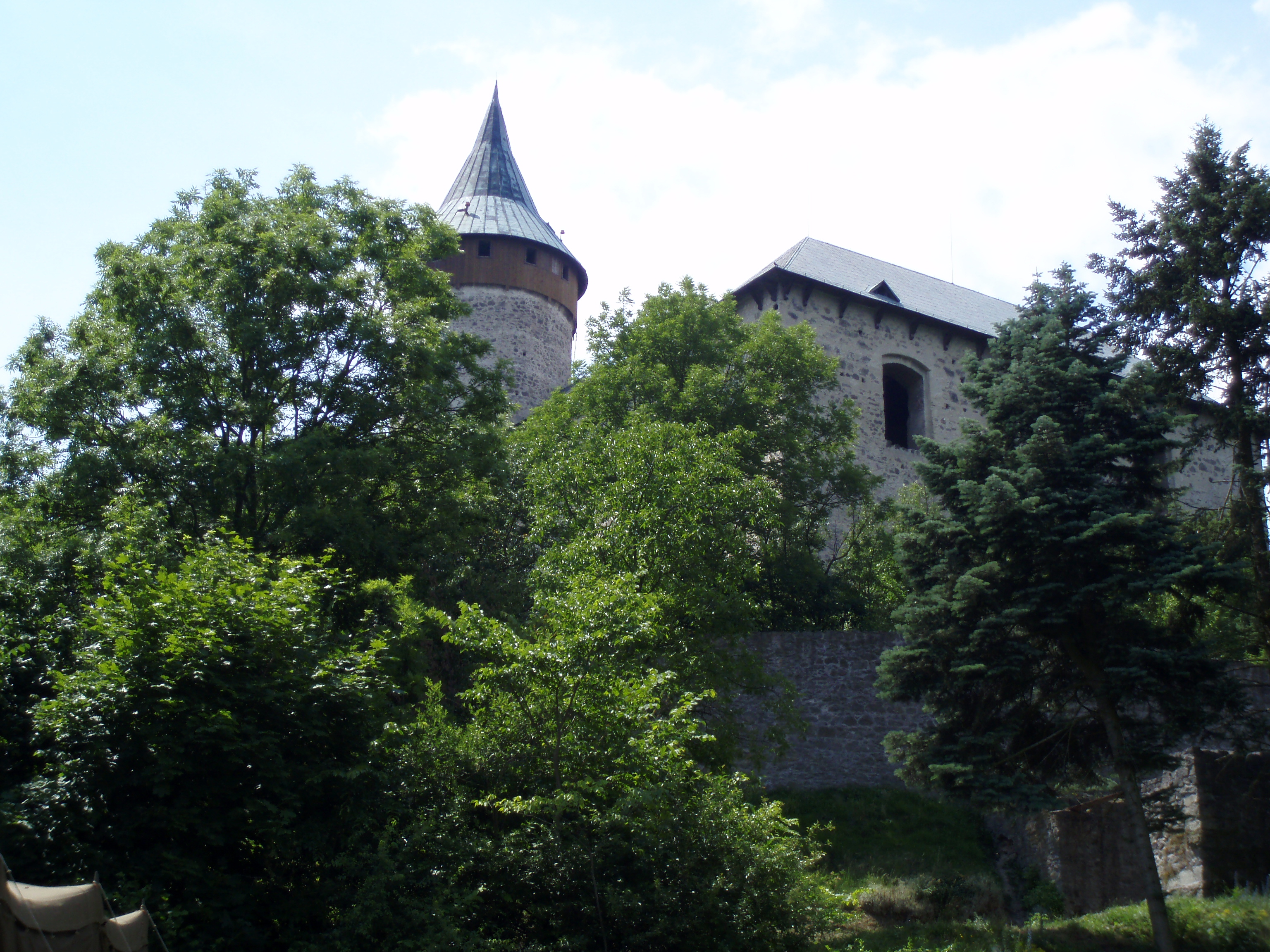 Kunětická hora Castle (CZ)